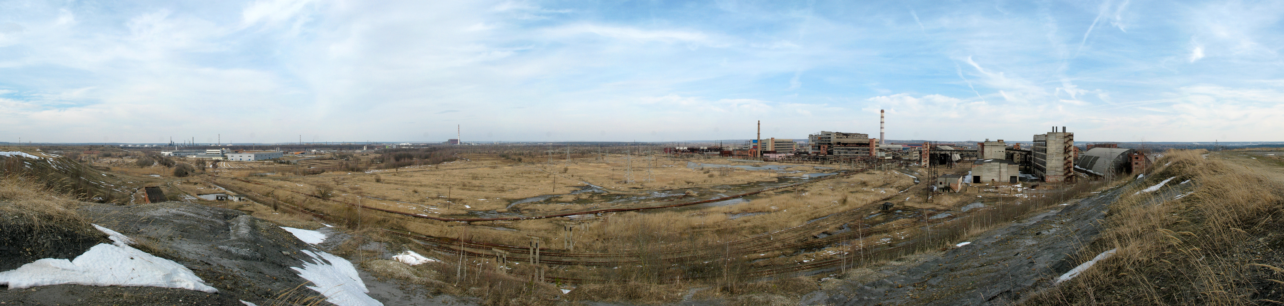 Valley, NW of the Kalush Magniy plant